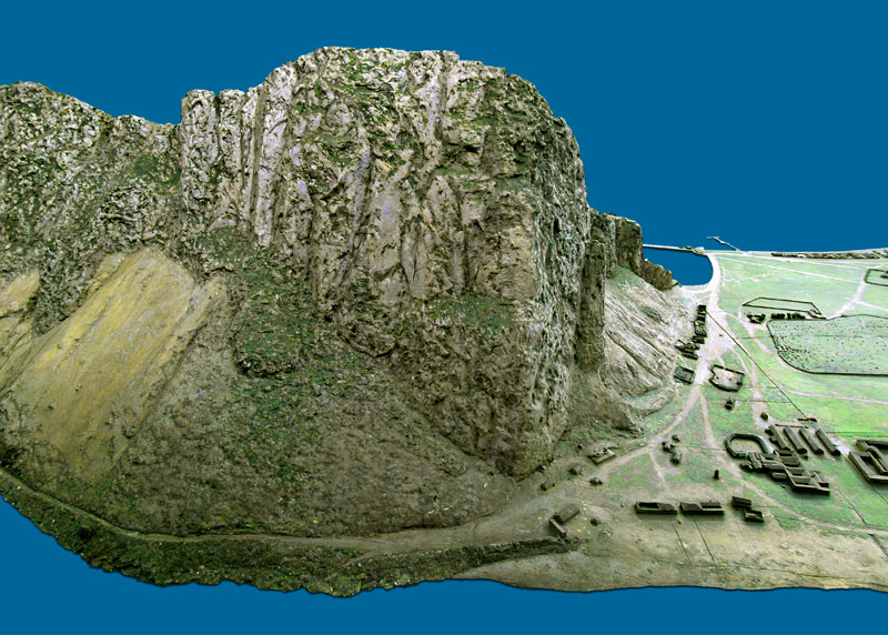 This view shows the north face of the Rock with its totally sheer cliff. The top has always been a military observation post and remains out of bounds today. Lower down the cliff can be seen a vertical pillar of rock attached to the main rock face. This is known as the Notch in which canons were placed after extensive tunnelling during the early 18 century. Views from a model of Gibraltar in Gibraltar Museum. The model is 8 meter's long at a scale of 1/600 or 1inch = 50ft which represents the almost 3 mile length of Gibraltar It was completed in 1865 from a survey by Lient. Charles Waren R.E. under the direction of Major General Frome R.E. it was coloured after nature by Captain B.A. Branfill of 86 Regiment 1868. These pictures are from and are generously given by the site and its auithor Jim Crone